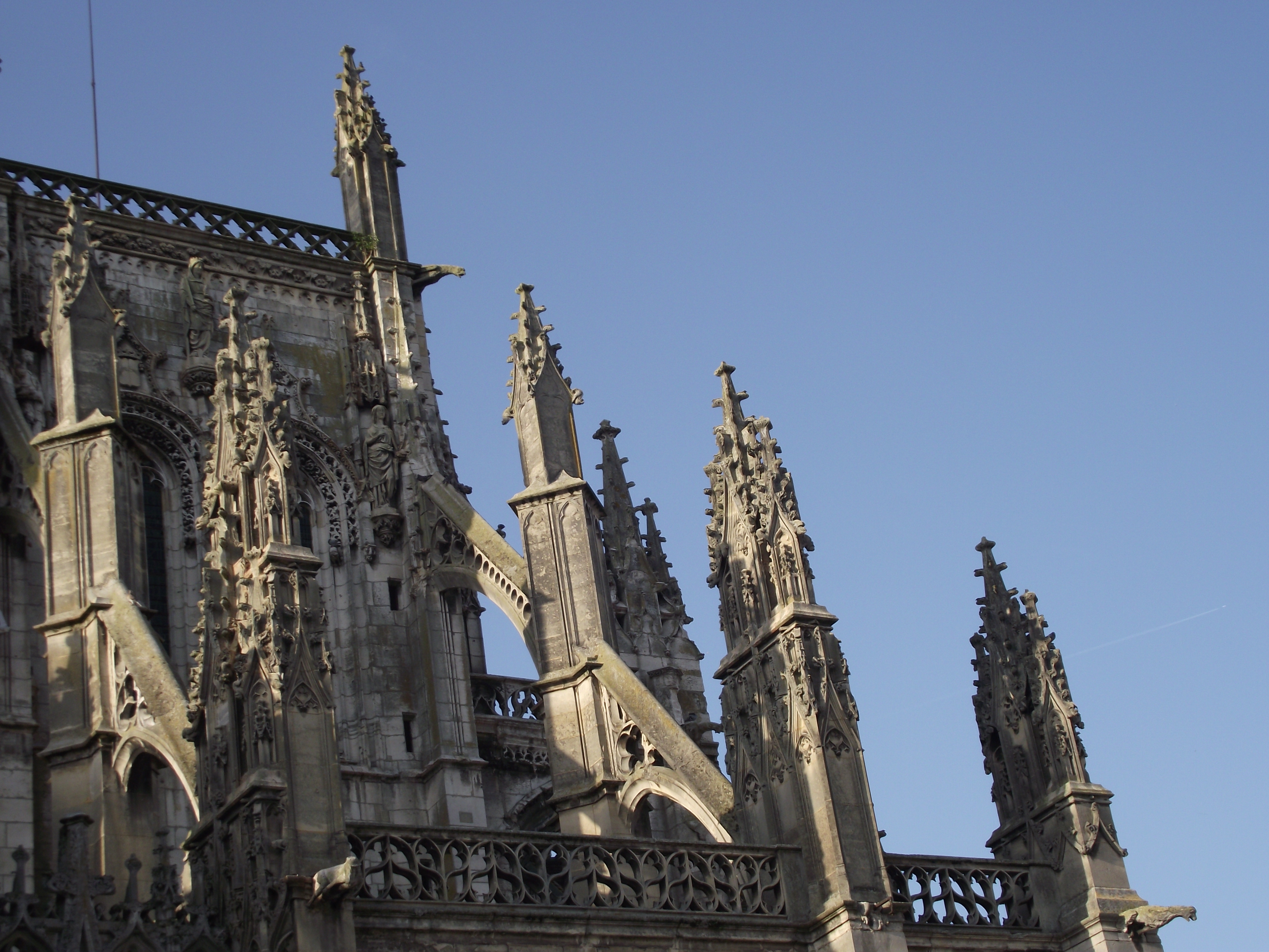 Louviers, Church of Our Lady, XI-XIII Century